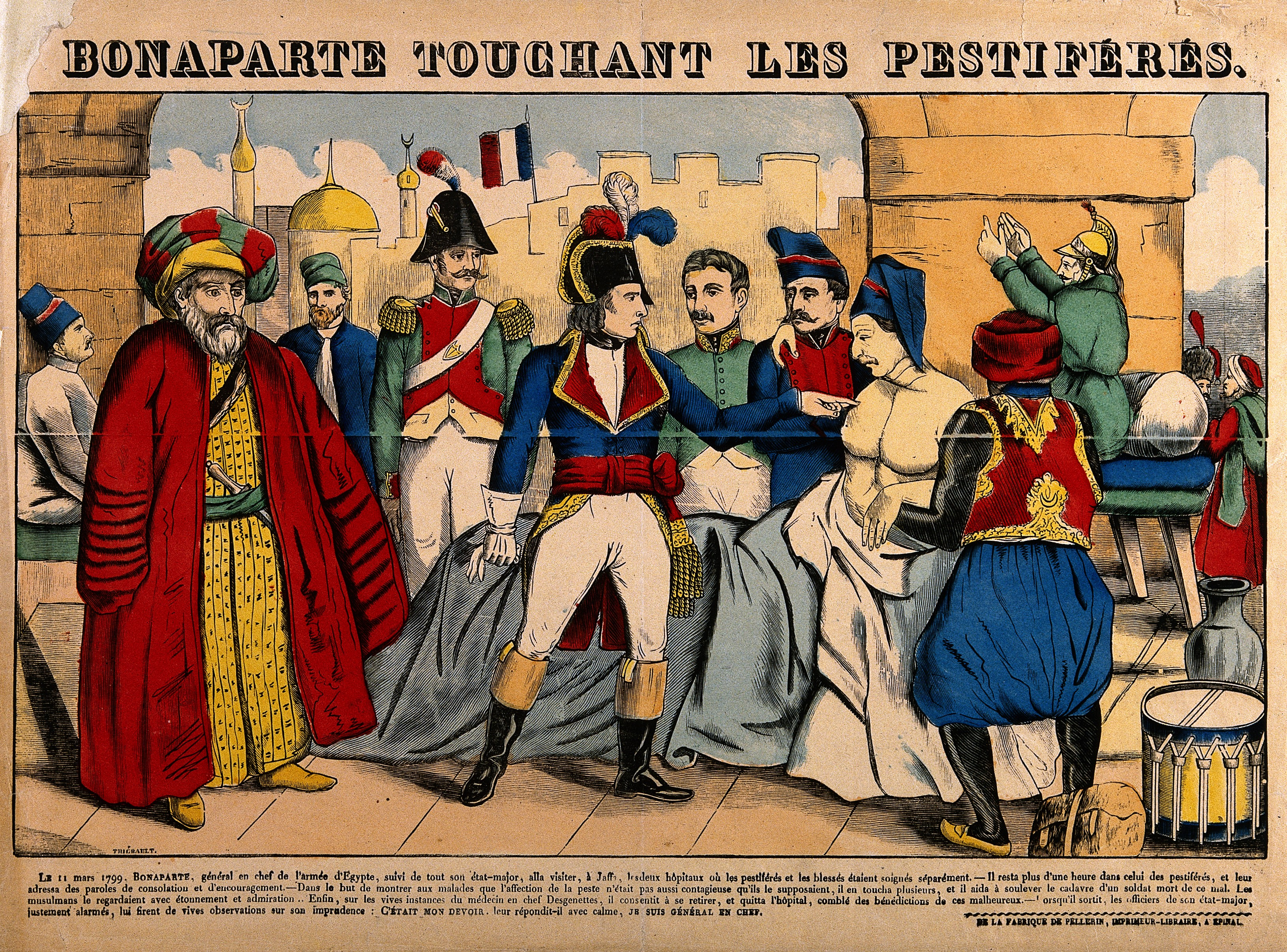 Napoleon Bonaparte touching the bubo of a plague victim at Jaffa in 1799. Coloured wood engraving by Thiébault. Iconographic Collections Keywords: jaffa; Napoléon I; Plague; napoleon bonaparte; Thiébault